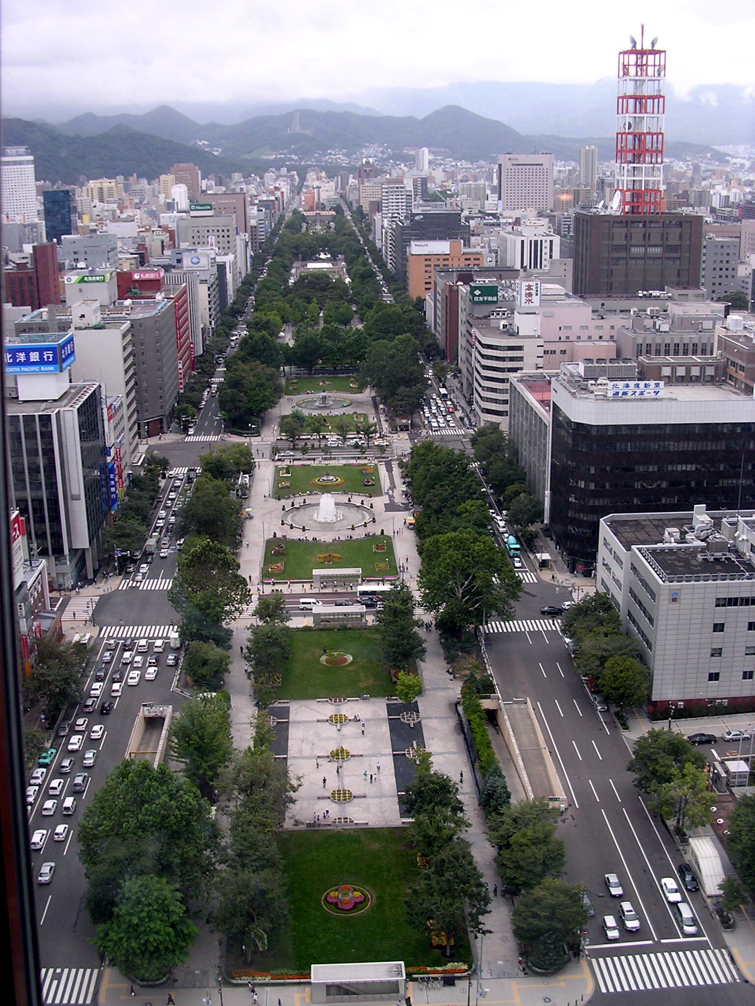 The Japanese city Sapporo at Hokkaido, Japan. Seen from the television-tower.